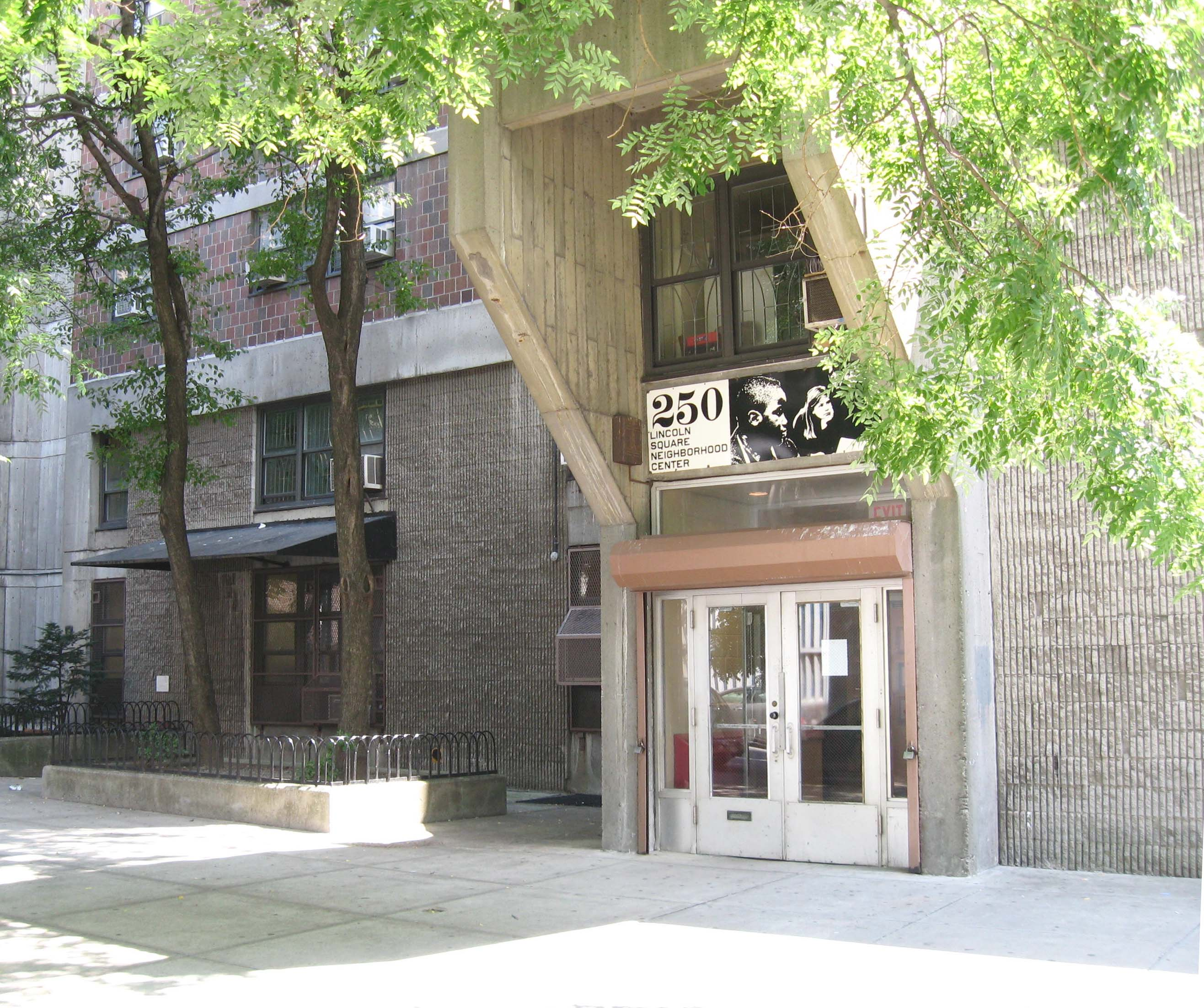 Looking south across West 65th Street at Lincoln Square Neighborhood Center in Manhattan